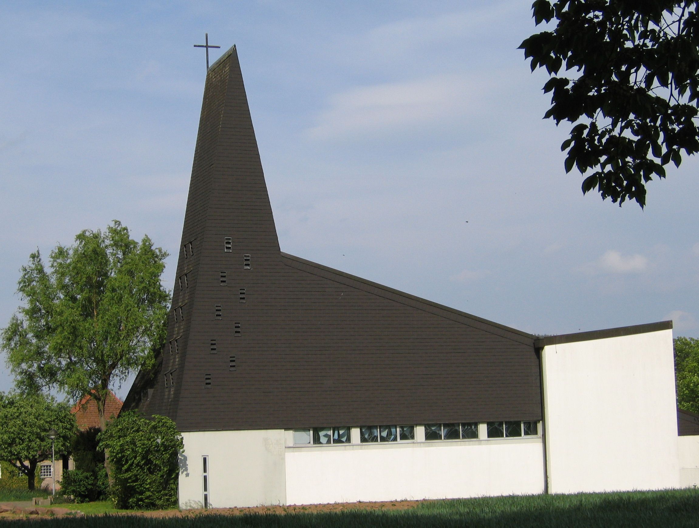 view of Alsenborn, Germany